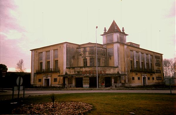 Messias Theatre, Mealhada, Portugal